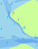 The Oostgat, a canal of the Westerschelde